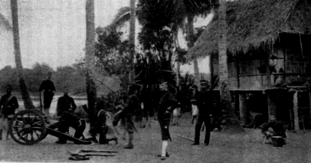 Dutch Artillery in the village of Rantau Kapas Muda (Sumatra) during the Djambi (Jambi) campaign.